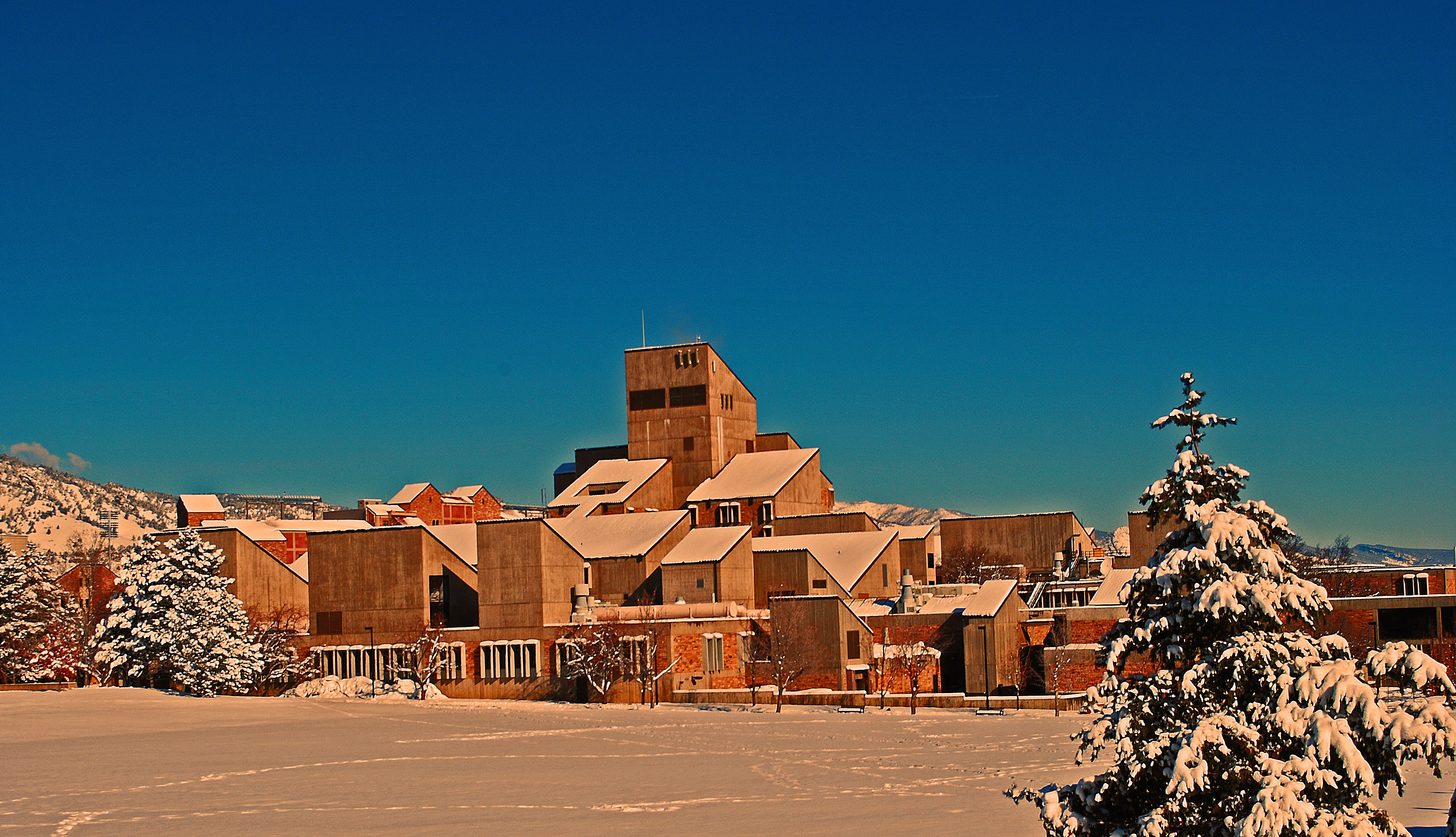 CU Engineering Center as seen from the Coors Event Center